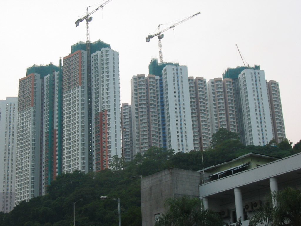 Shek Pai Wan Estate overview. Buildings under reconstruction could be seen.